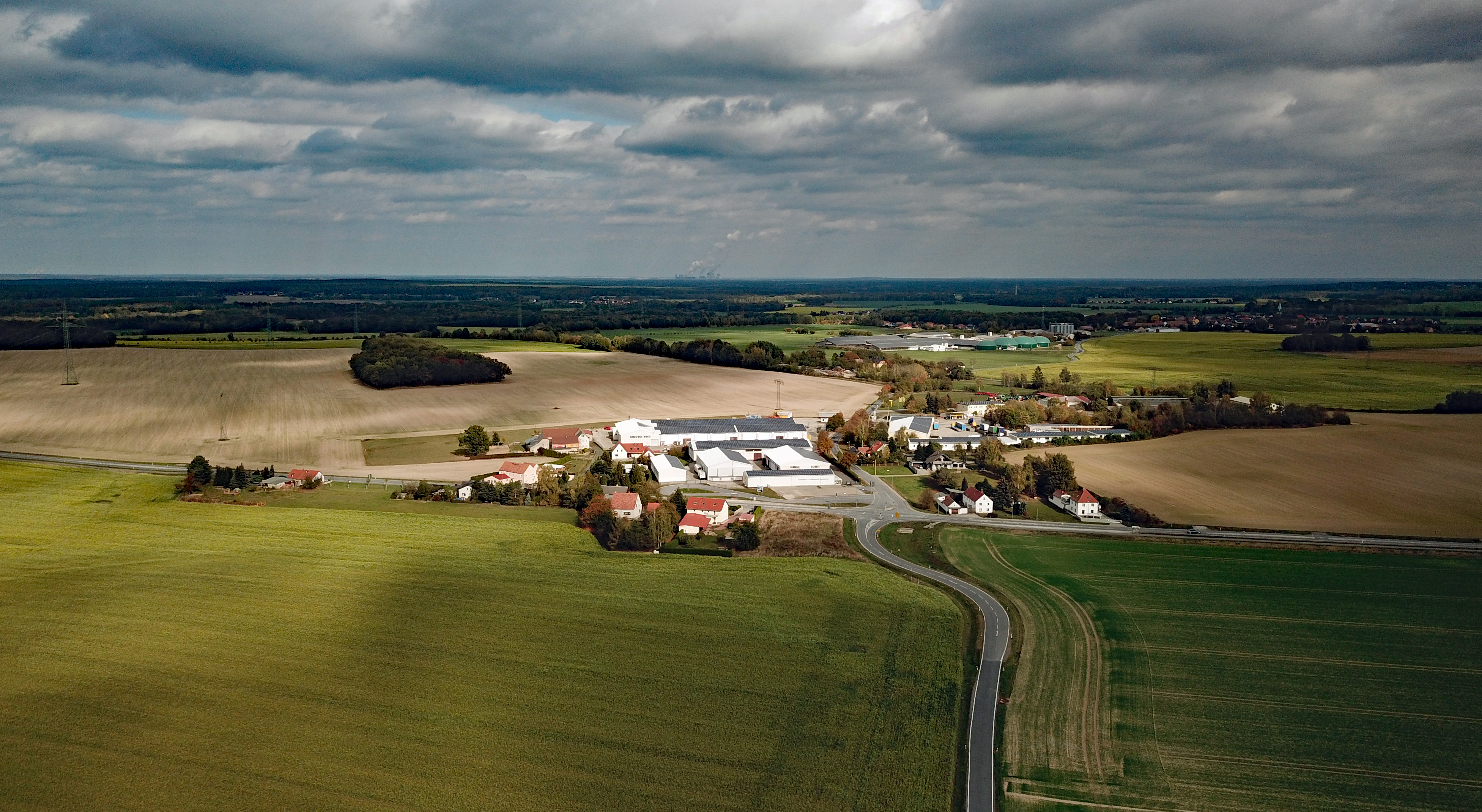 Schwarzadler (Radibor, Saxony, Germany) Hornjoserbsce: Powětrowy wobraz Čorneho Hodlerja ze zapada